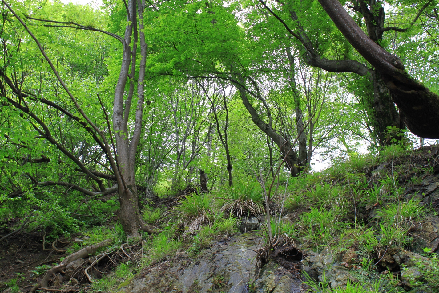 Talish mountains masalli Azerbaijan